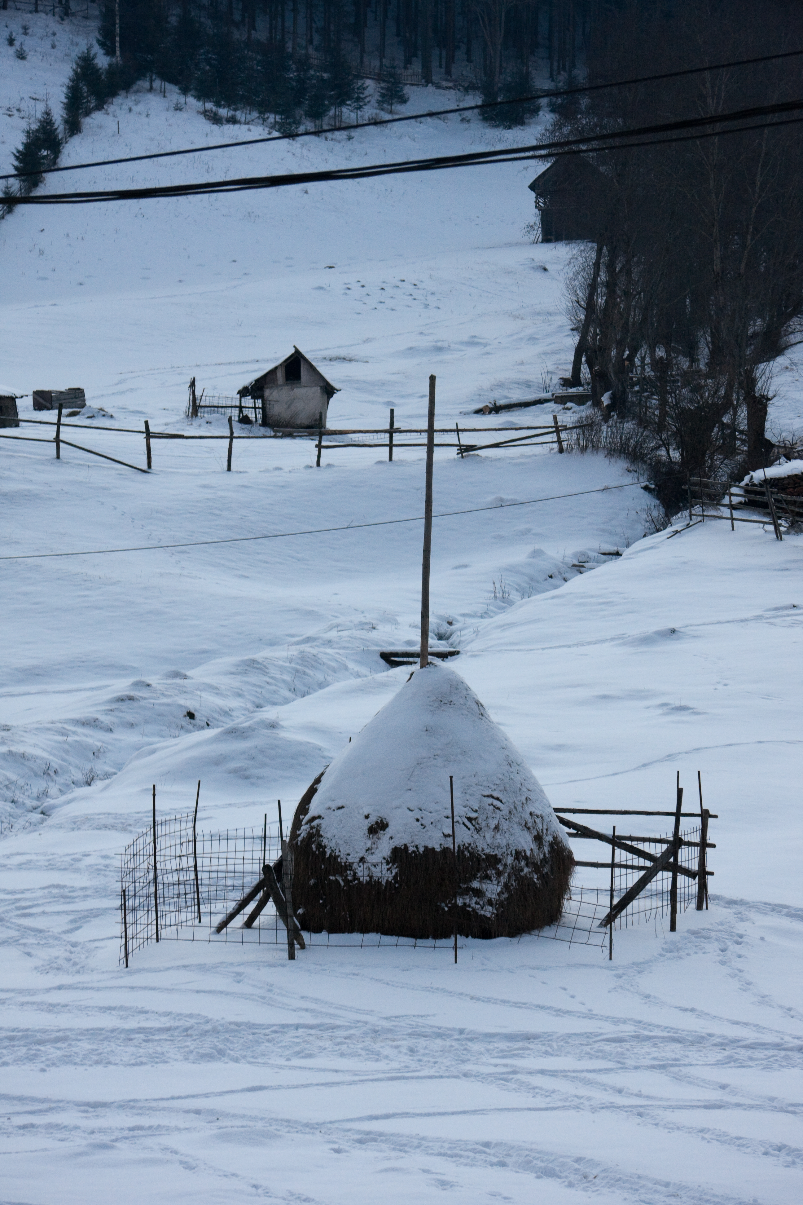 Conical haystack built around a long wooden pole, with the top covered by a layer of snow. It sits on a field leading into the hills, with some people and animal tracks left behind. Some small wooden cottages up in the distance.